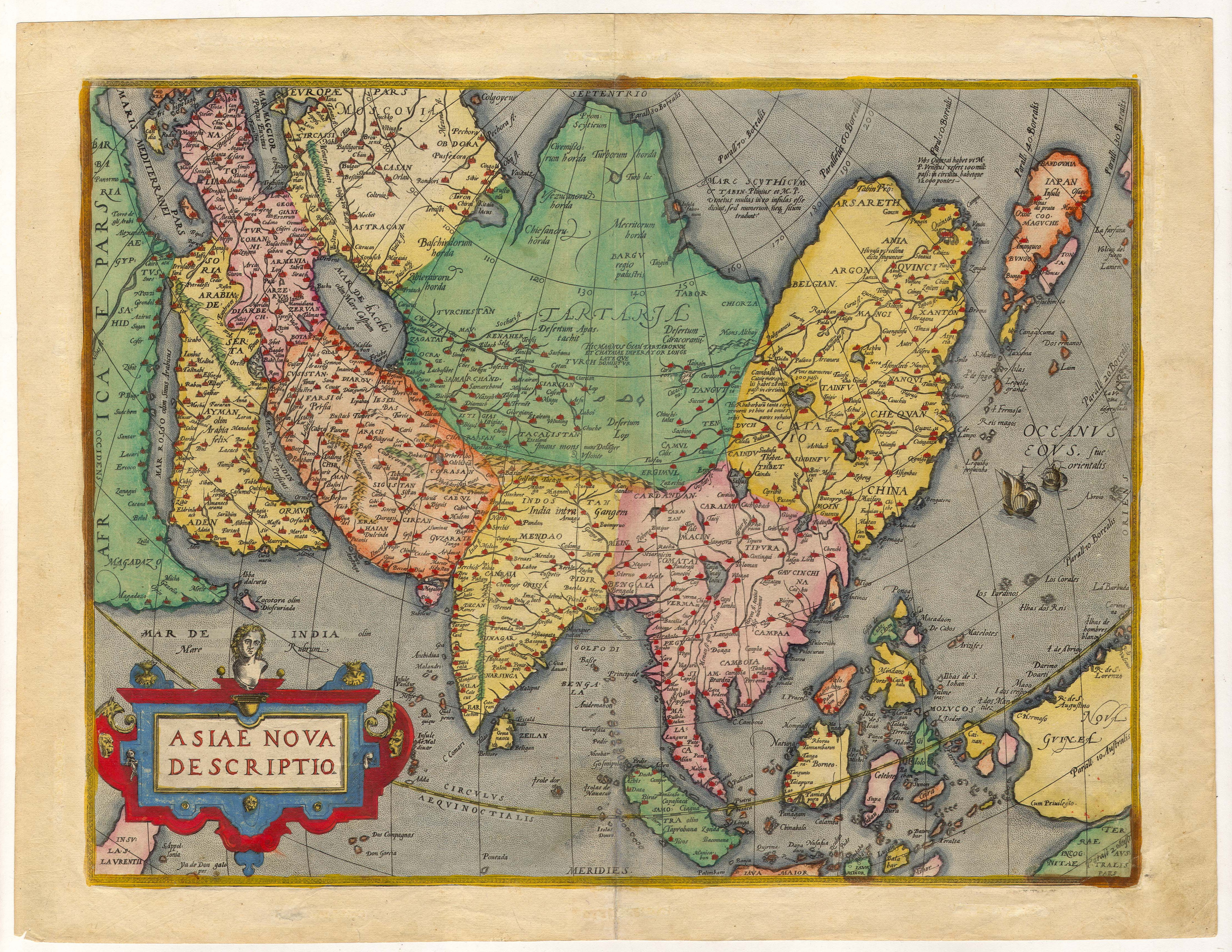 Asiae Nova Descriptio FIRST edition : 1570 Original size : 37.2 x 59.6 cm Produced using copper engraving